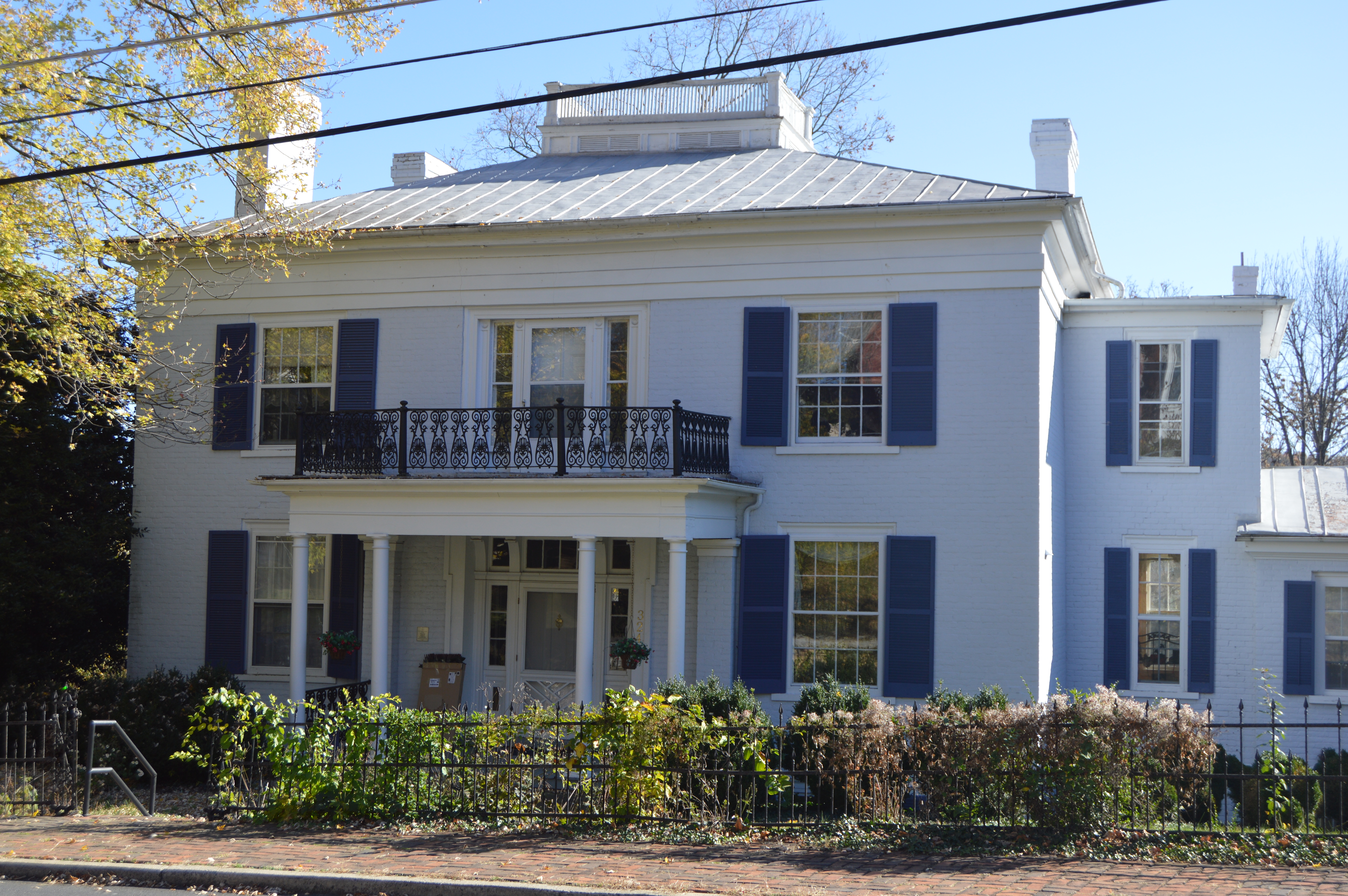 Front of the Thomas J. Michie House, located at 324 E. Beverley Street in Staunton, Virginia, United States. Built in 1848, it is listed on the National Register of Historic Places, and it is part of a Register-listed historic district, the Gospel Hill Historic District.